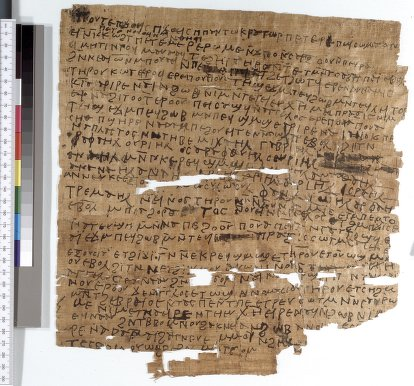 The image is in the possession of the U-M Papyrus Collection. I have asked for and received permission to use it from the director of the collection. Description of the text "The handwriting of this papyri, as that of other papyri in group I (see electronic version of Wizard's hoard), is extremely rude and uneven, as though produced by some nearly illiterate person who seldom had occasion to write." at below link